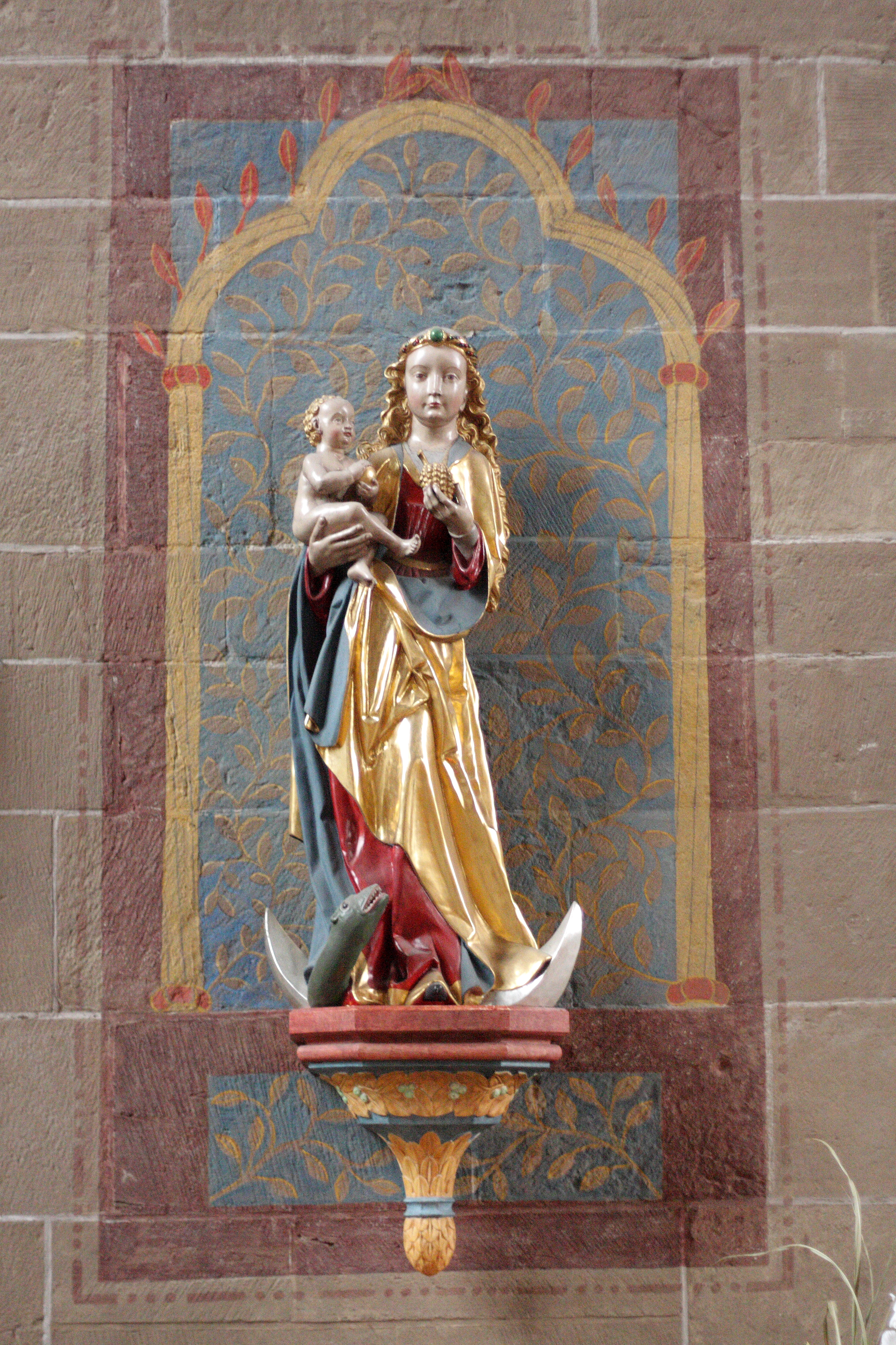 Cathedral in Minden, District of Minden-Lübbecke, North Rhine-Westphalia, Germany.